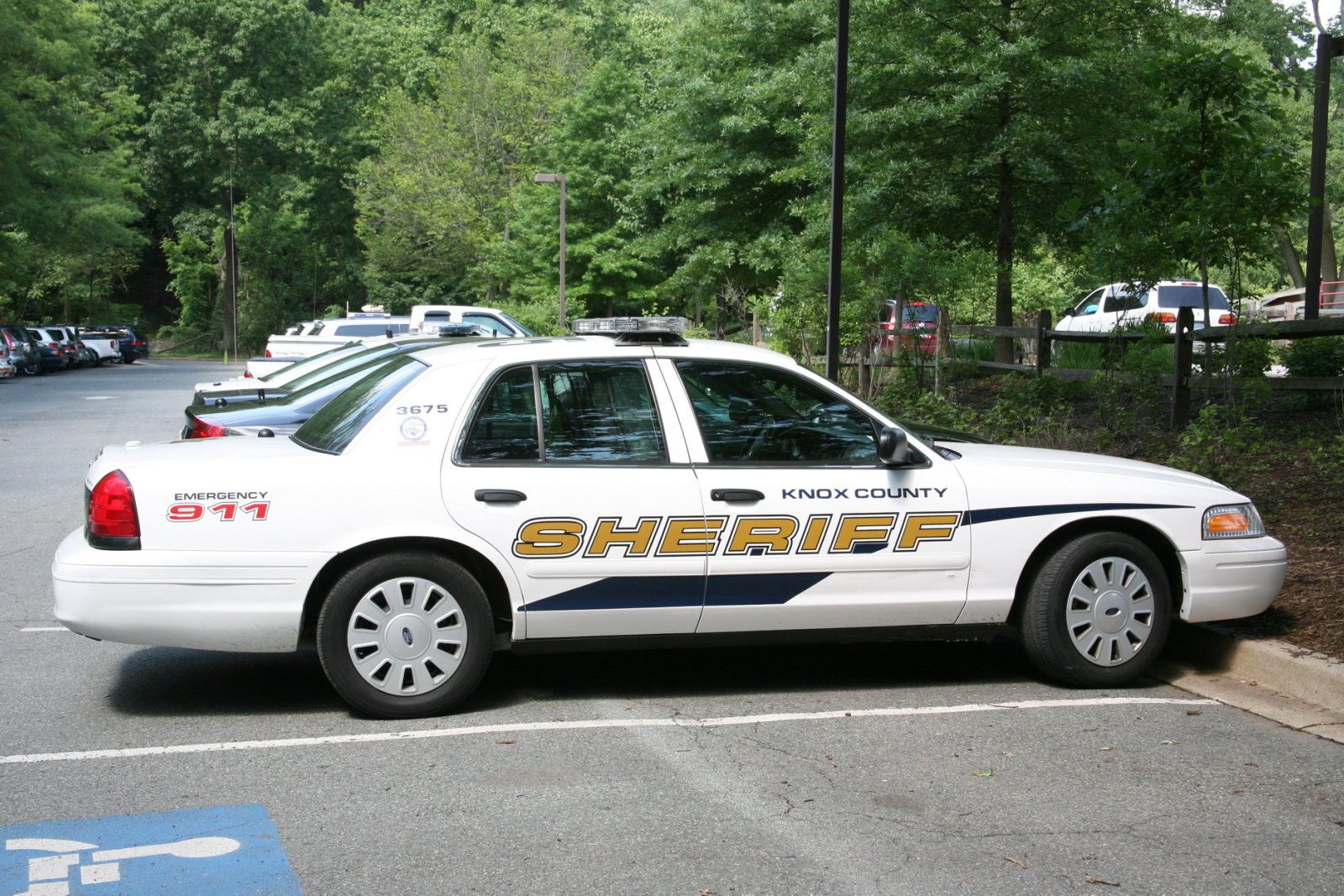 The Knox County Sheriff's Office (KCSO) has a proud and distinguished history that dates back to 1792, and has grown to be east Tennessee’s largest law enforcement agency.